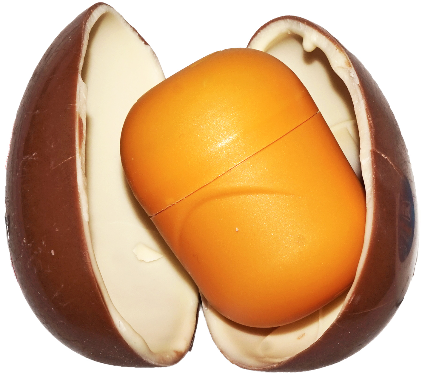 Kinder Surprise chocolate egg opened.